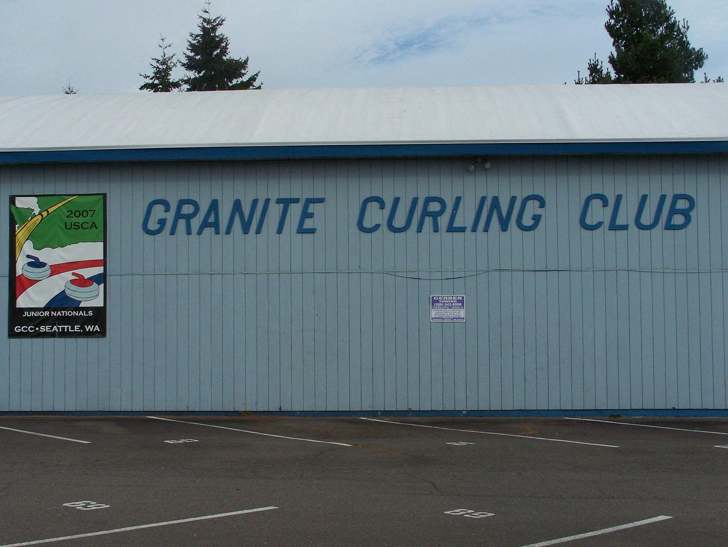 Exterior of the Granite Curling Club in Seattle. Taken October, 2007